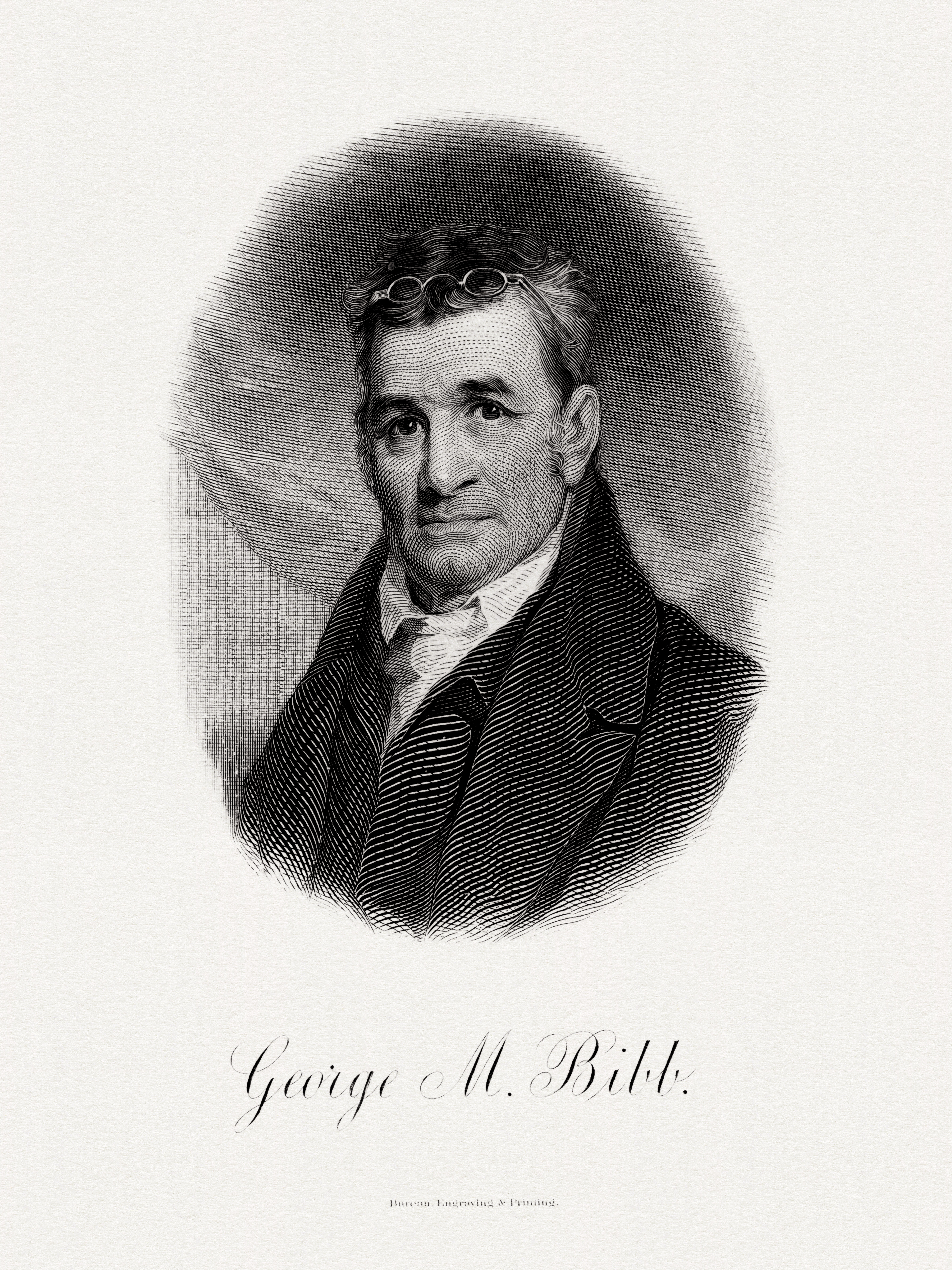 Engraved BEP portrait of U.S. Secretary of the Treasury George M. Bibb